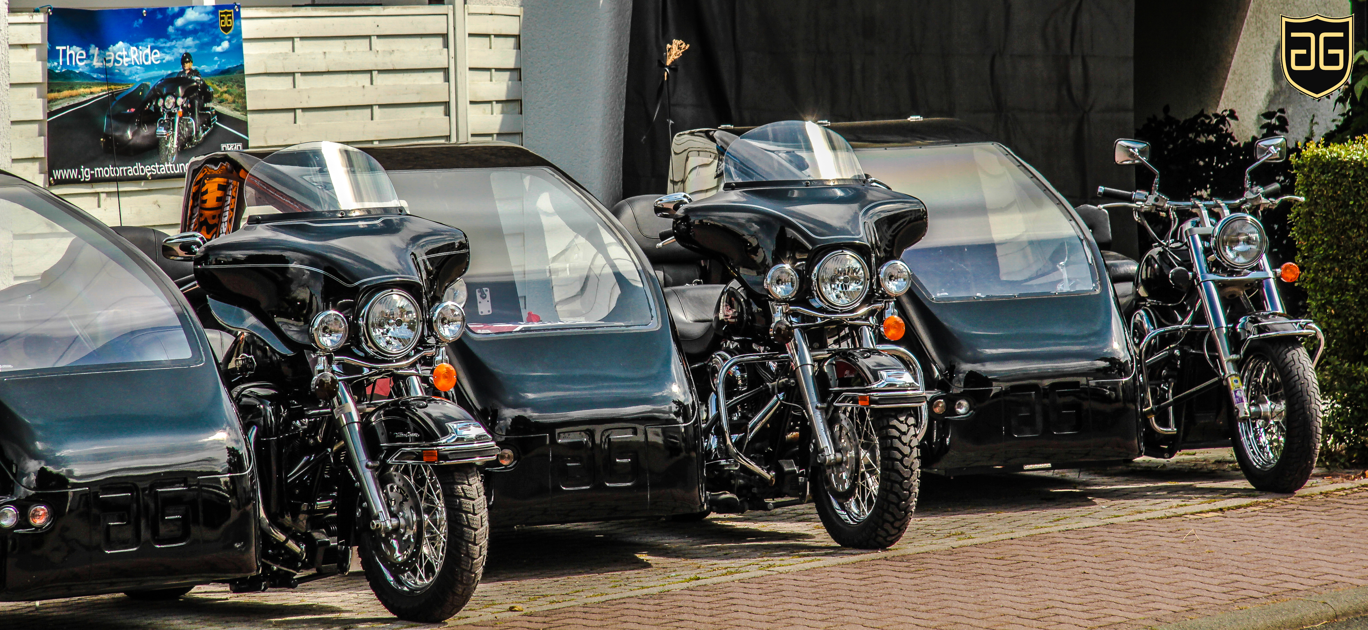 These are the Harley-Davidson funeral herase of JG-Motorcycle Funerals